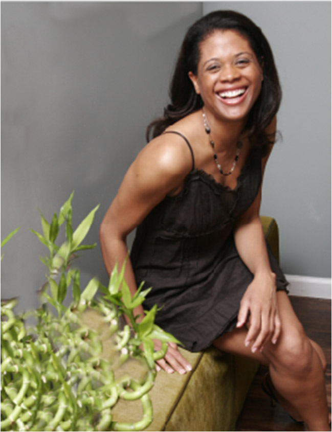 Photo image of Robin Wilson